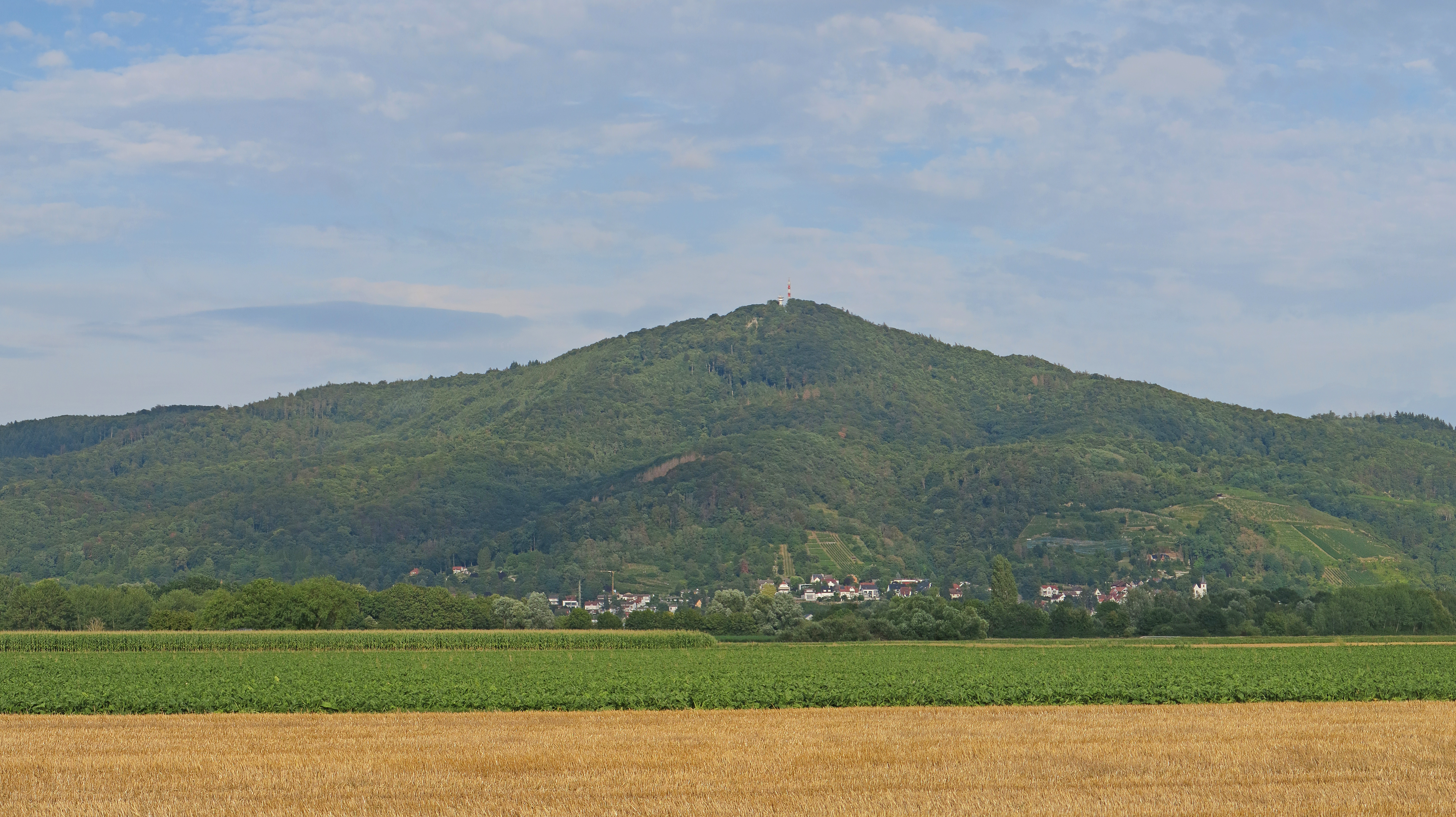 The Melibokus in the Odenwald range seen from west